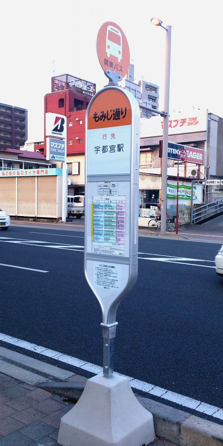 Kanto Bus Momiji-dori Bus Stop